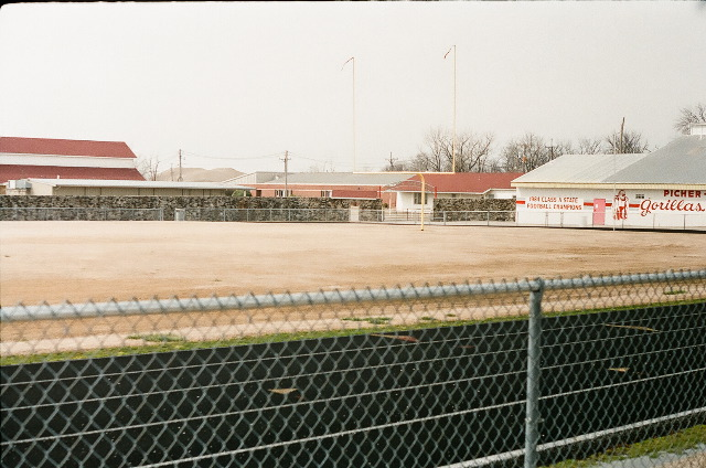 A view of the stadium in the former lead and zinc mining town of Picher, Oklahoma